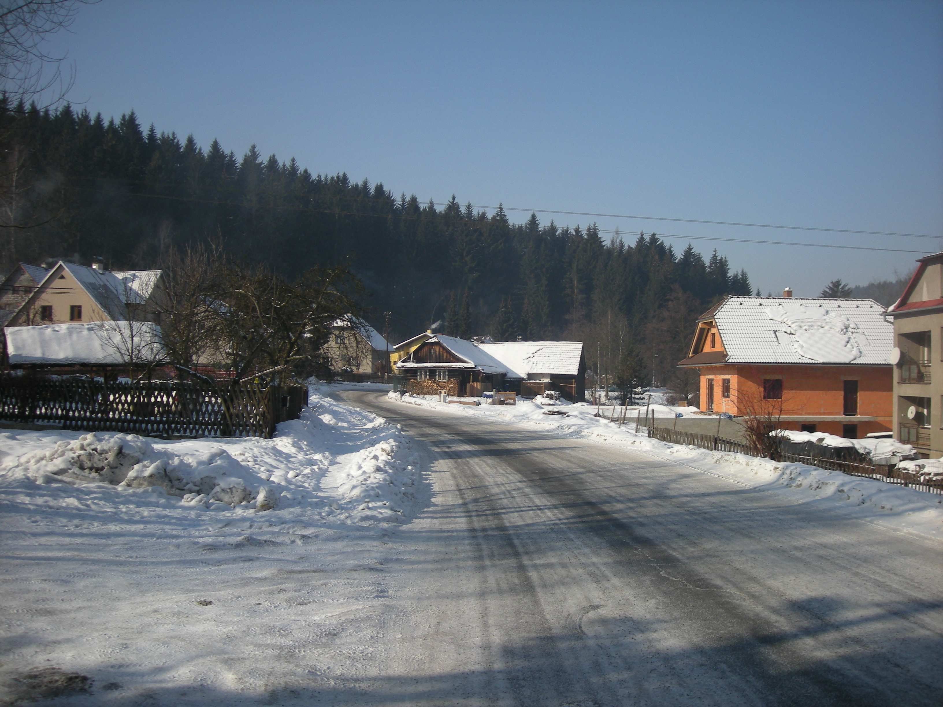 Bařiny in Valašská Bystřice